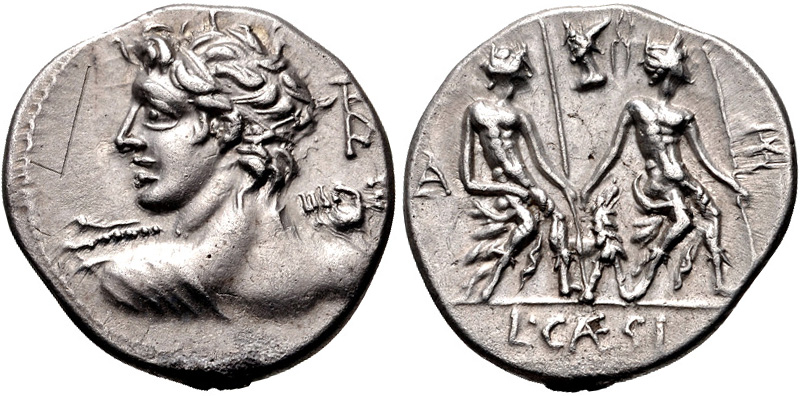 Lucius Caesius 112-111 BC. AR Denarius (20mm, 3.83 g, 12h). Rome mint. Heroic bust of Apollo-Vejovis left, preparing to hurl thunderbolt; ROMA monogram behind / Two Lares seated right, each holding a staff; dog between them, head of Vulcan and tongs above. Crawford 298/1; Sydenham 564; Caesia 1. Good VF, lightly toned, minor porosity, scratch in obverse field. From the Demetrios Armounta Collection. Ex Classical Numismatic Group Electronic Auction 157 (31 January 2007), lot 138.